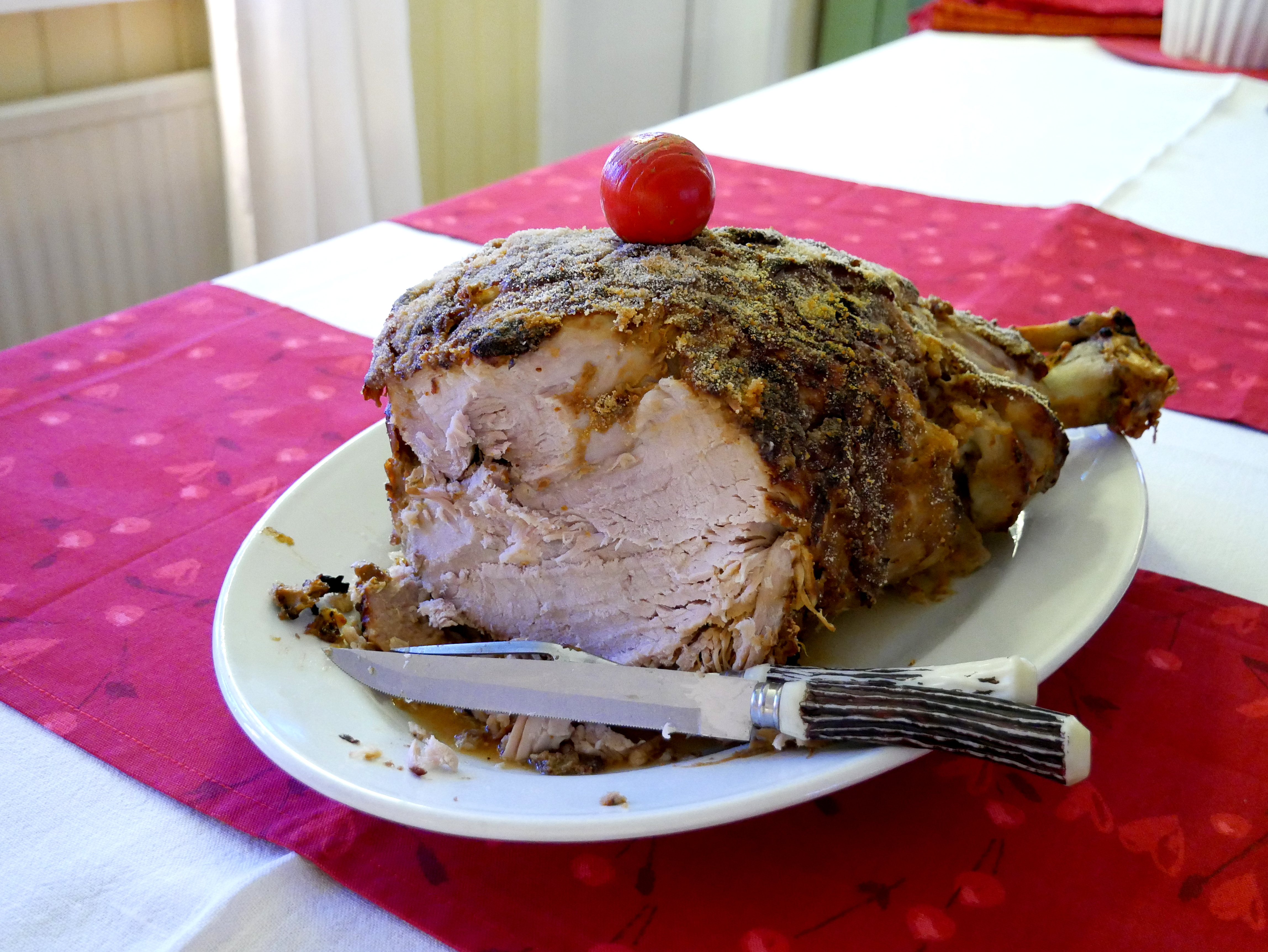 Christmas ham.